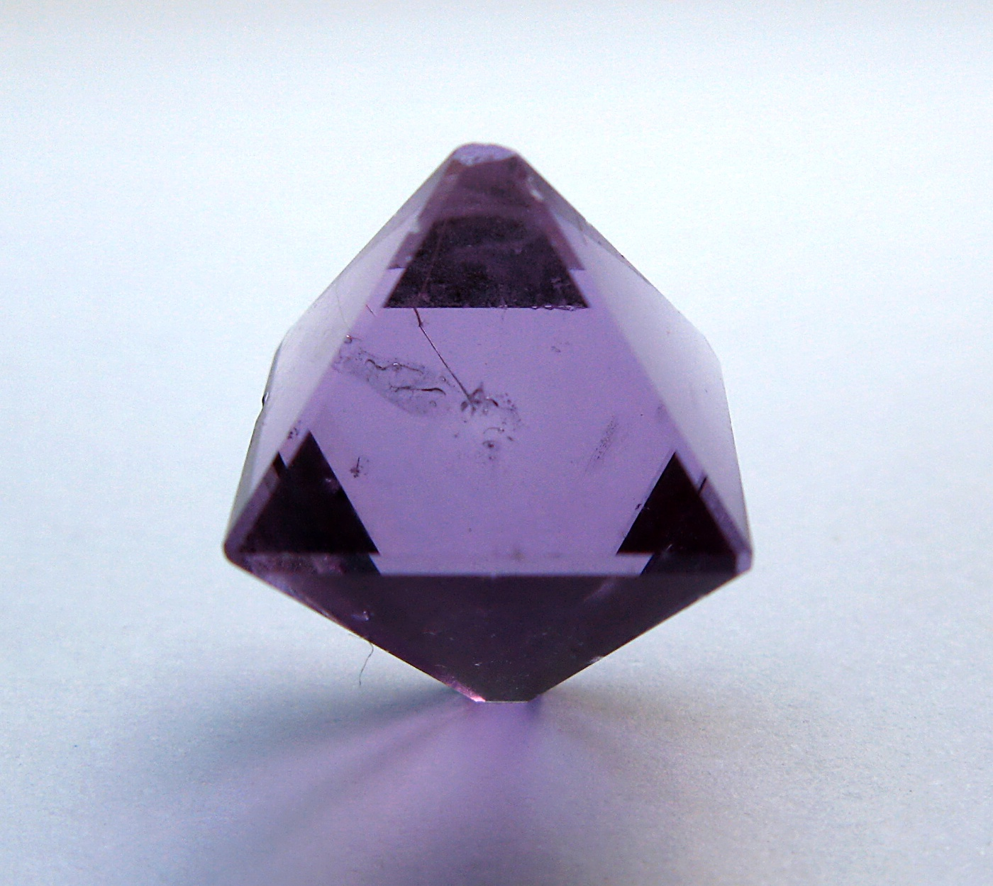 single crystal of a synthetic chrome alum with common octahedral shape, side view on a triangular face